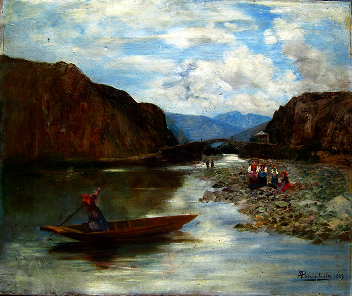 photograph of a picture